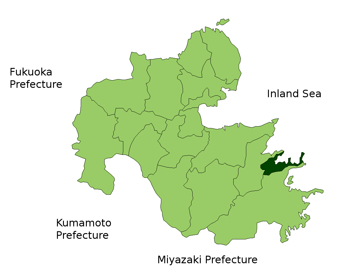 Location Map of Tsukumi in Oita Prefecture, Japan